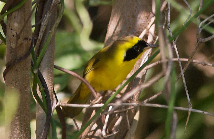 Altamira Yellowthroat Geothlypis flavovelata, male, Tamaulipas, Mexico.